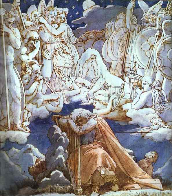 "The Songs of Ossian", Ink and watercolors